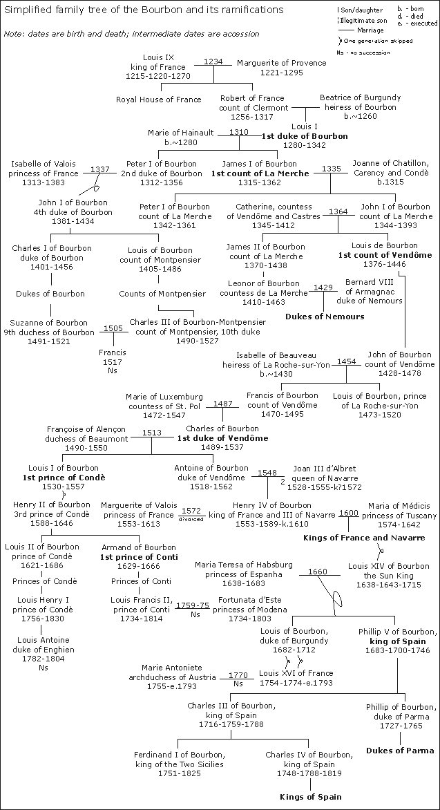 Simplified family tree of the House of Bourbon. Drawn by Muriel Gottrop. Note that several references, including his Wiki article, show Louis I, Prince of Conde, dying 13 March 1569, not 1557 as shown here.